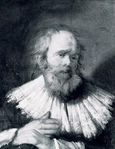 Saint Mark.